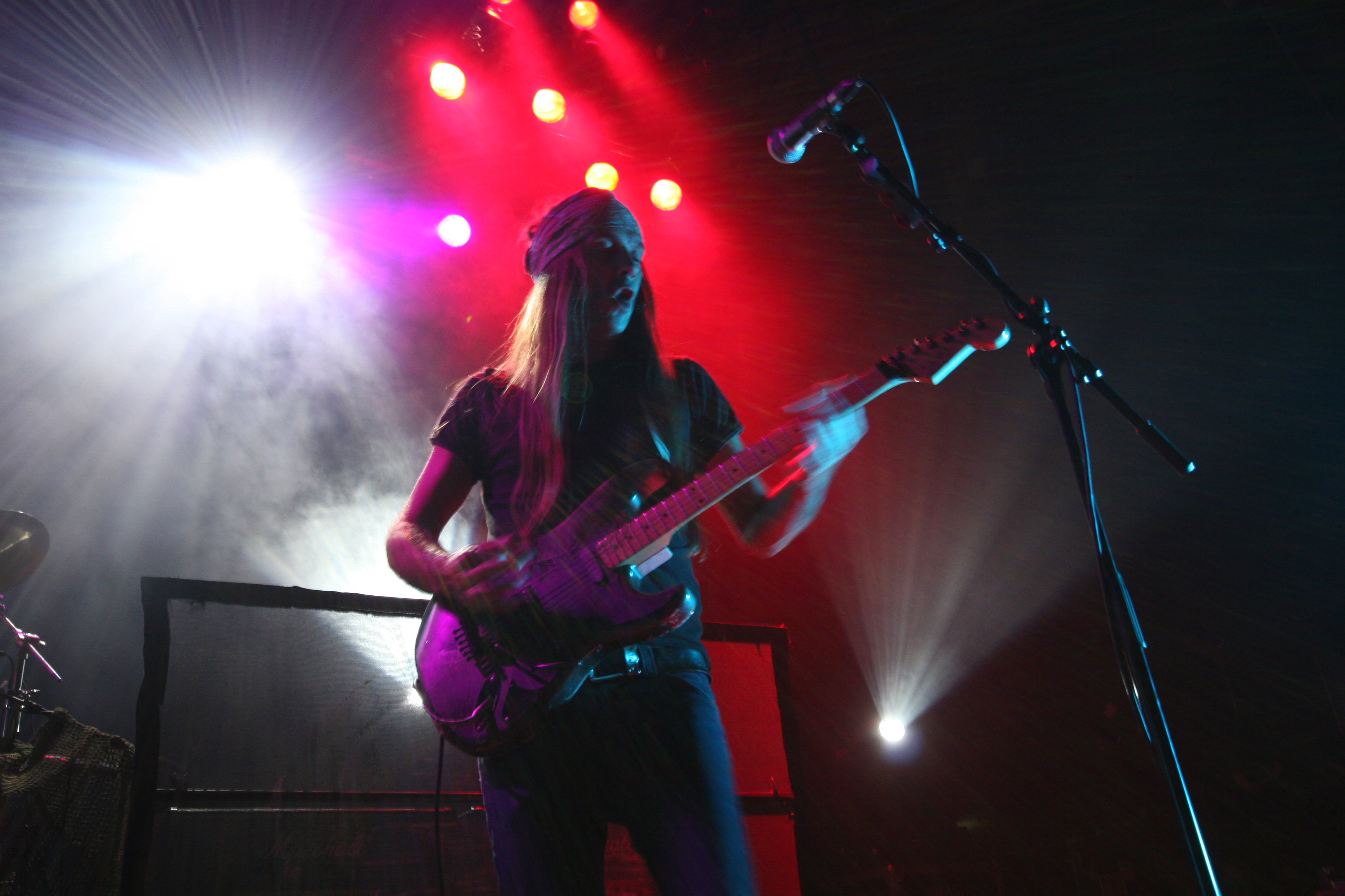 Ronni Le Tekrø at Rockefeller, Oslo